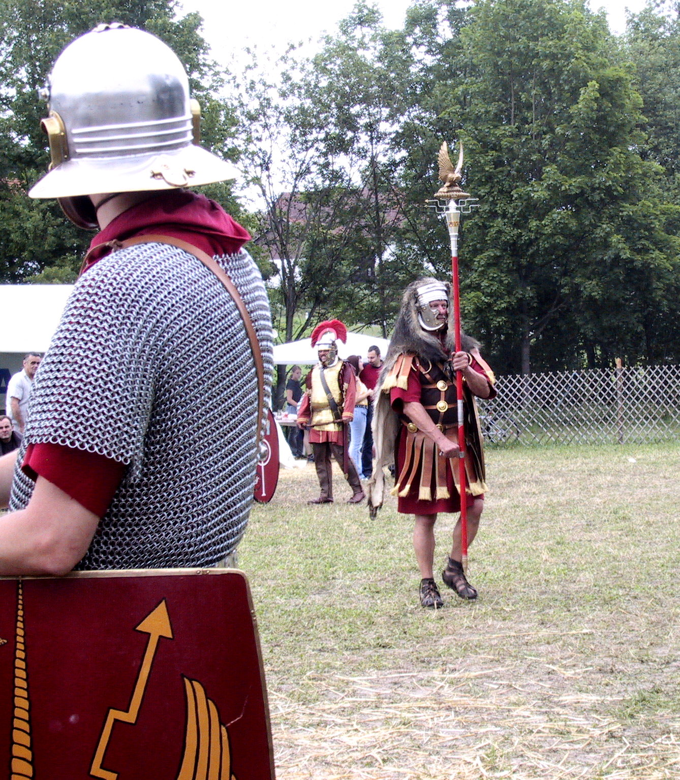 Roman Aquilifer A little mixed up centuries, foreground roman soldier in chainmail from the first century, in the background a centurion from end of the second century Photographed by myself during a show of Legio XV from Pram, Austria